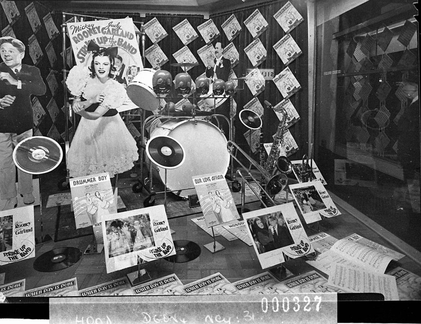 Window display for "Strike up the Band" (taken for M.G.M.)